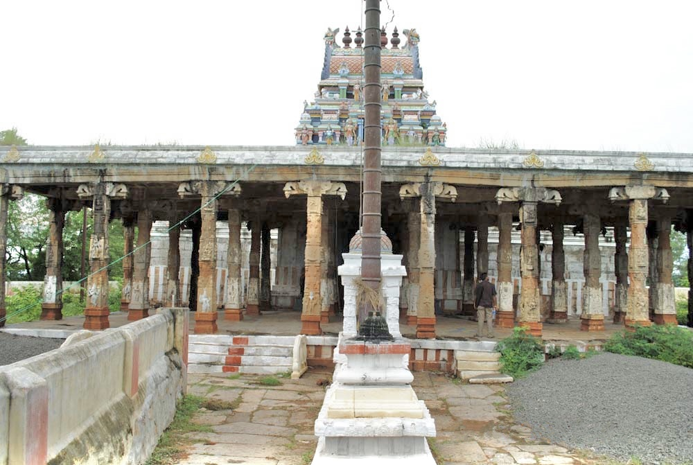 Devikapuram Kanagagiri Hill Temple